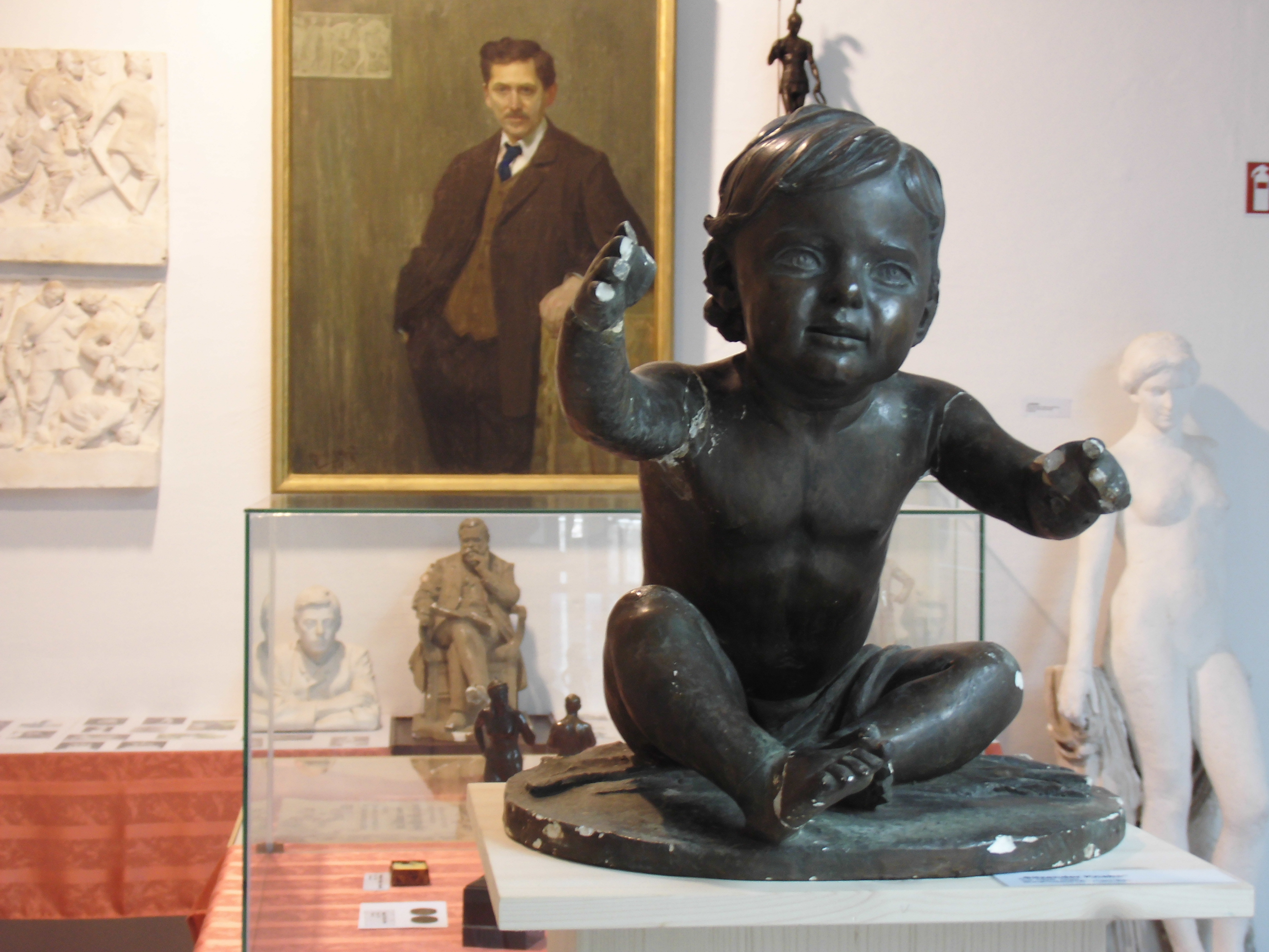 Exhibition of sculptures by Wilhelm Wandschneider in Burgmuseum Plau am See